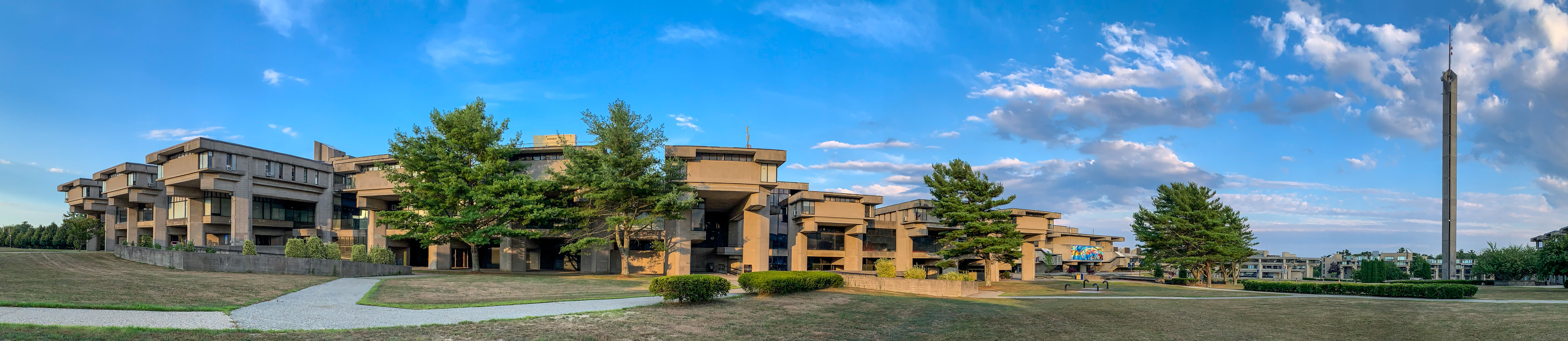 Panoramic view of the campus of the University of Massachusetts, Dartmouth, highlighting Paul Rudolph's brutalist designs.